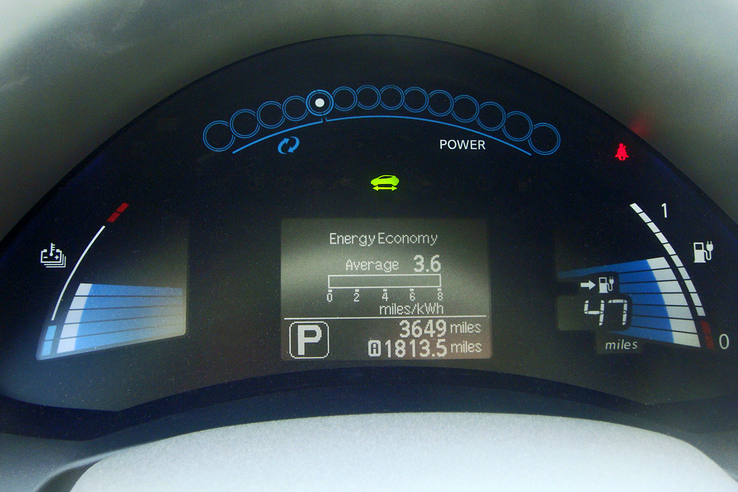 Nissan Leaf driver's main digital panel, Leaf pre-production unit used for test drives at the 2011 Drive Electric Tour Washington DC